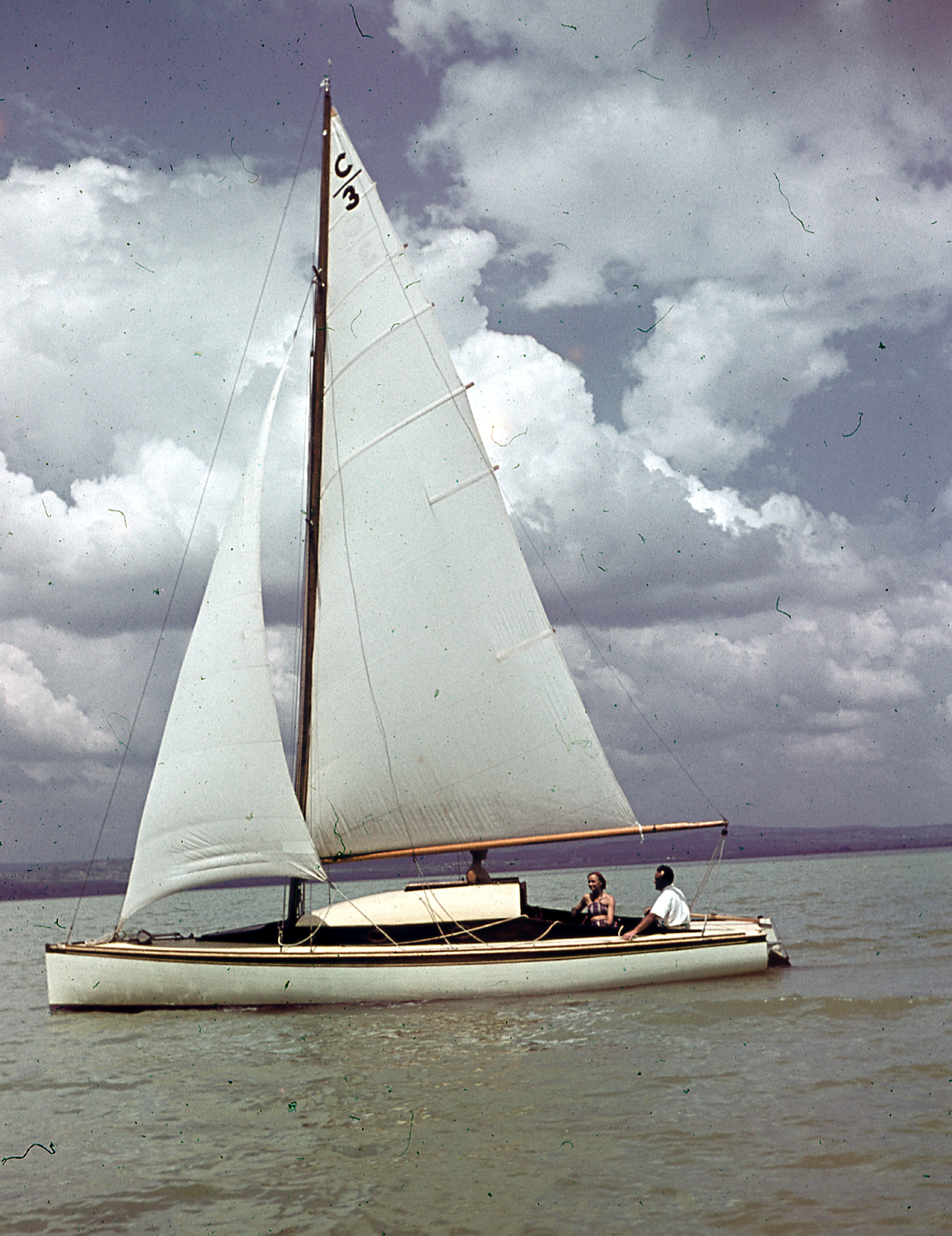 Hungary 1939 This Agfacolor photo (invention from 1936) was not colorized. Life before the Second World War.